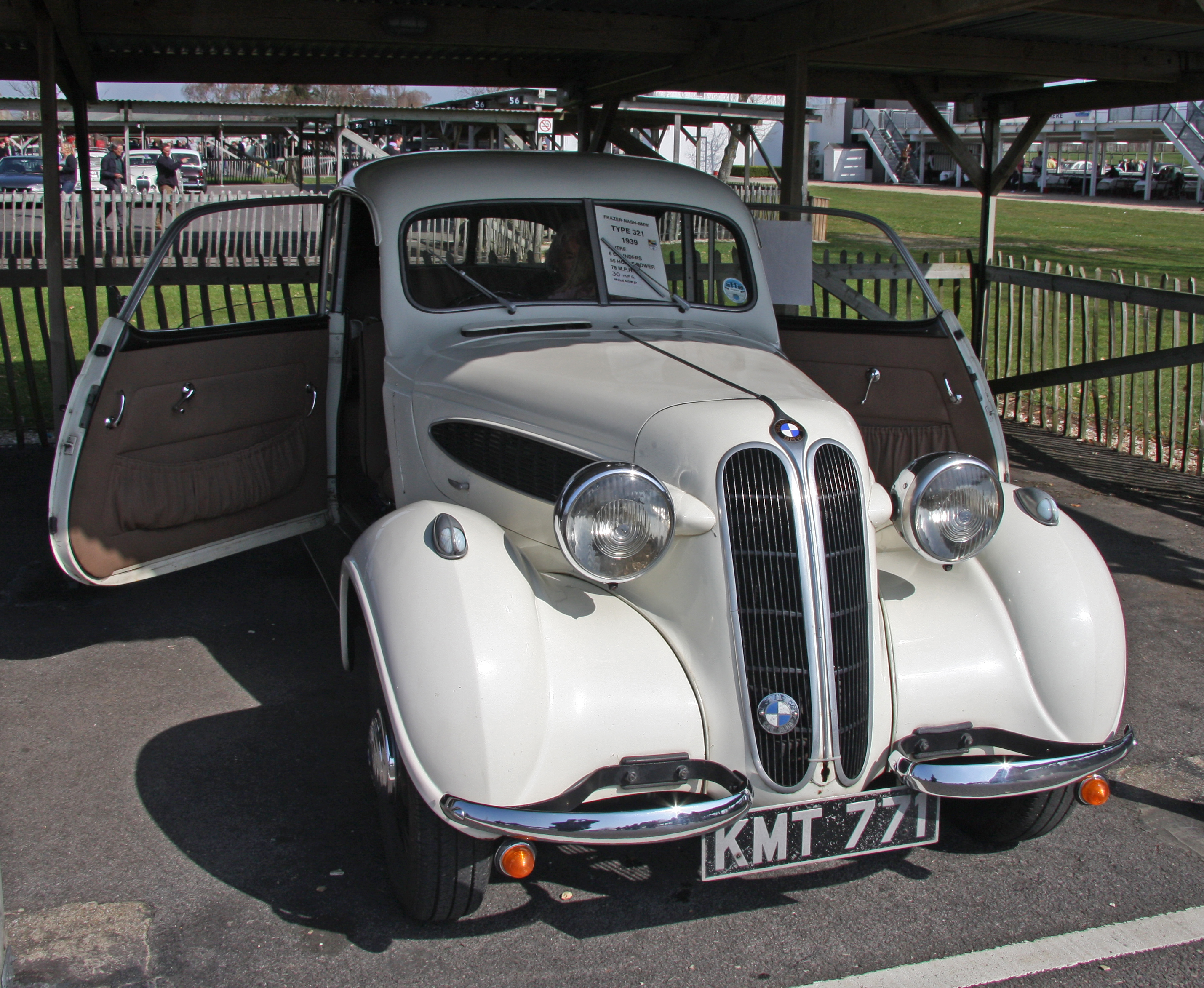 1939 Frazer Nash BMW Type 321